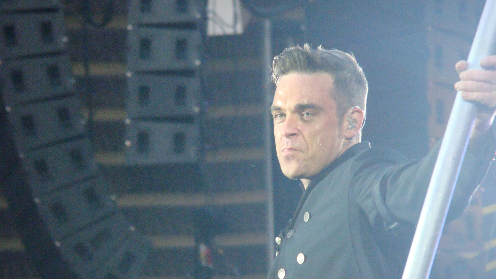 Robbie Williams performing as part of the Take That Progress Live 2011 Tour, Sunderland Stadium of Light